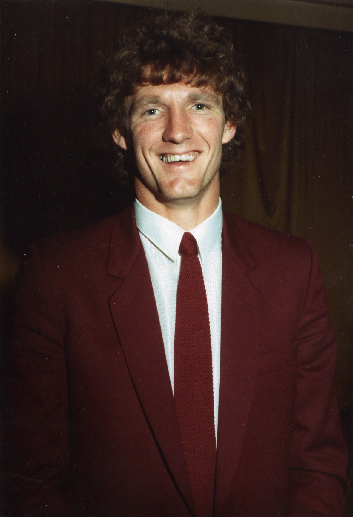 Aston Villa Footballer Allan Evans taken at a supporters club presentation night at Daventry in 1983.